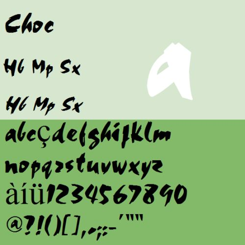 Choc Typeface